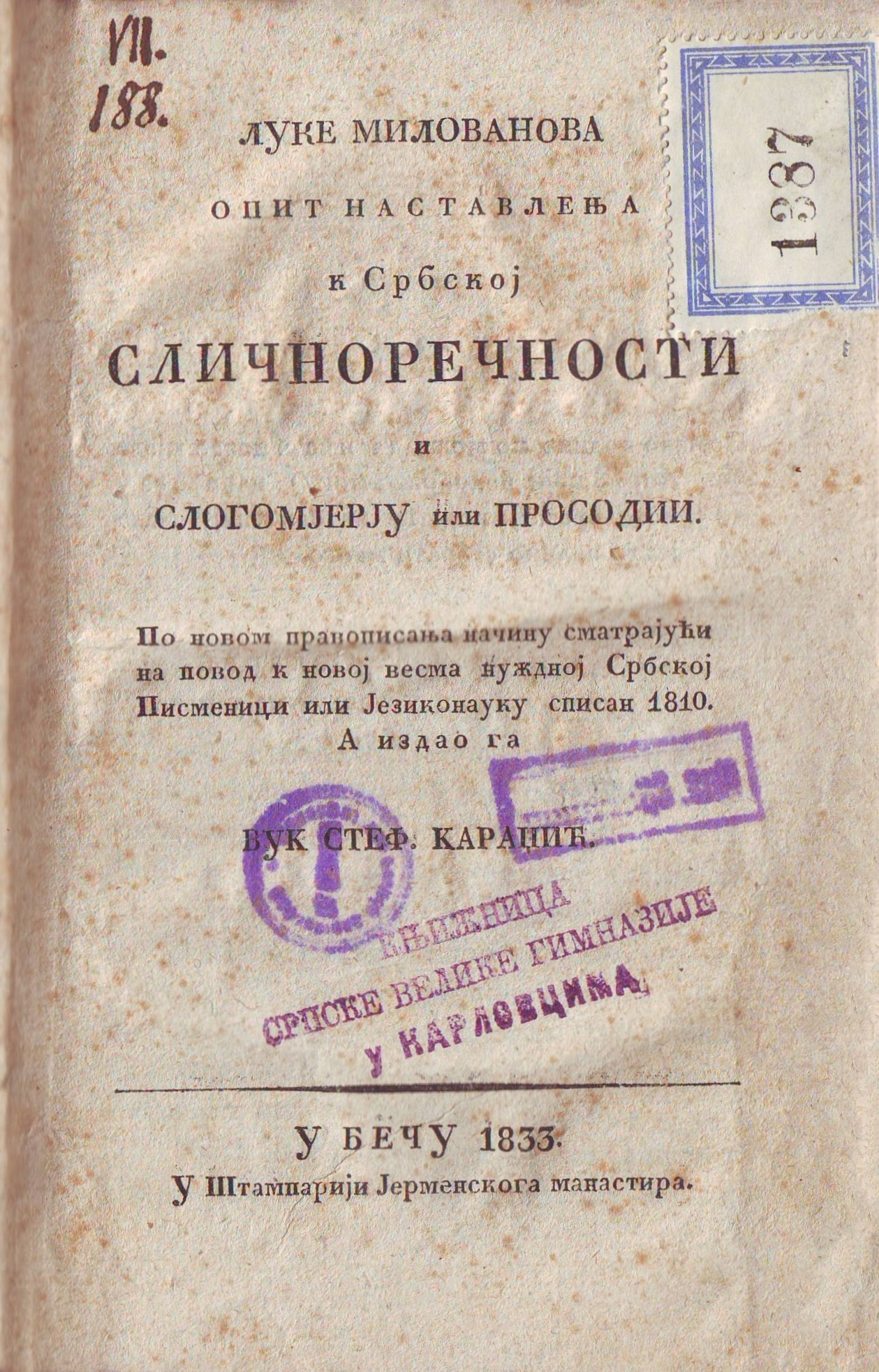 Cover of Opit nastavlenja k srbskoj sličnorečnosti i slogomjerju ili prosodii (1833) by Luka Milovanov. Srpski (latinica): Naslovna strana knjige Opit nastavlenja k srbskoj sličnorečnosti i slogomjerju ili prosodii (1833) Luke Milovanova.